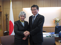 Flavia Pansieri, Executive Coordinator of the United Nations Volunteers, met Ikuo Yamahana, Parliamentary Secretary for Foreign Affairs, at the Headquarters of the Ministry of Foreign Affairs in Chiyoda Ward, Tōkyō Metropolis on November 18, 2010.